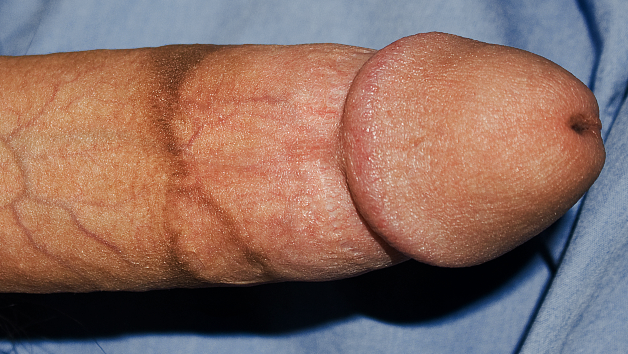 A male penis with a prominent circumcision scar. Note the split at the right side.